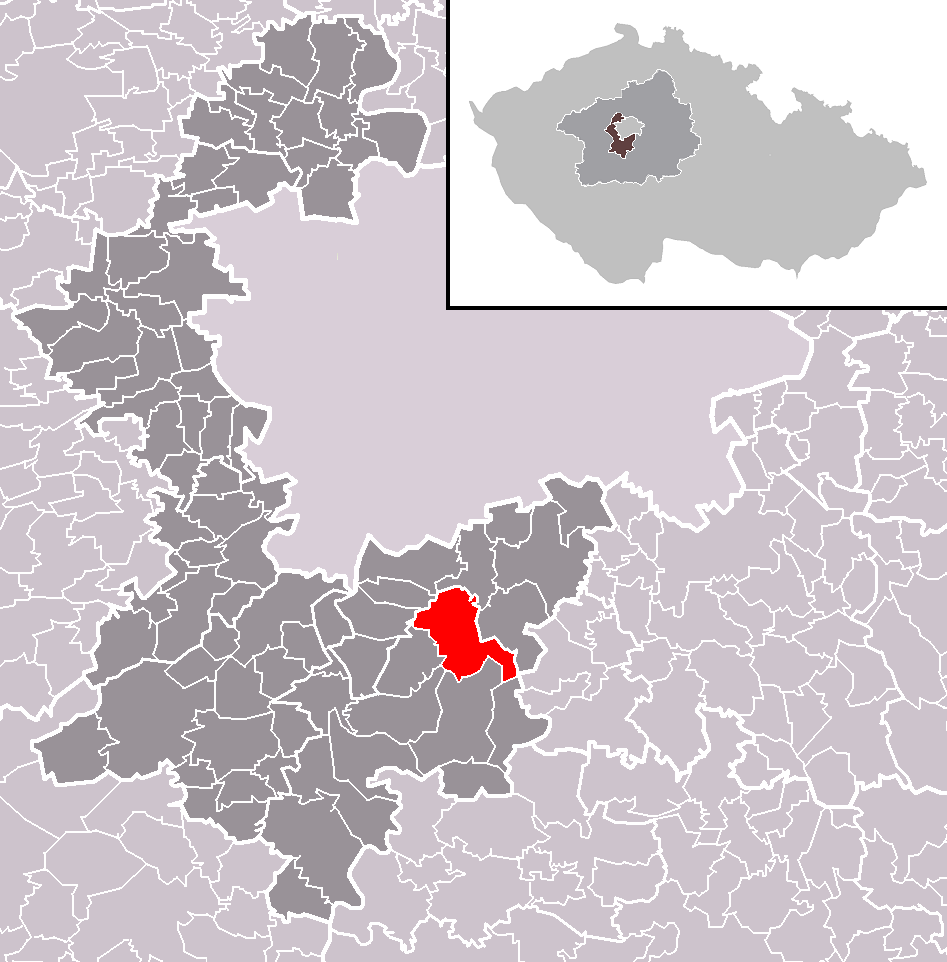 Location of Libeř municipality within Prague-West District and administrative area of Černošice as a Municipality with Extended Competence.